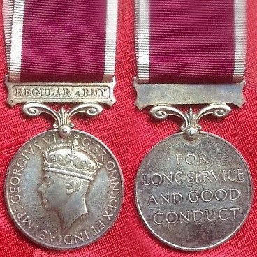 The first King George VI version of the Medal for Long Service and Good Conduct (Military)